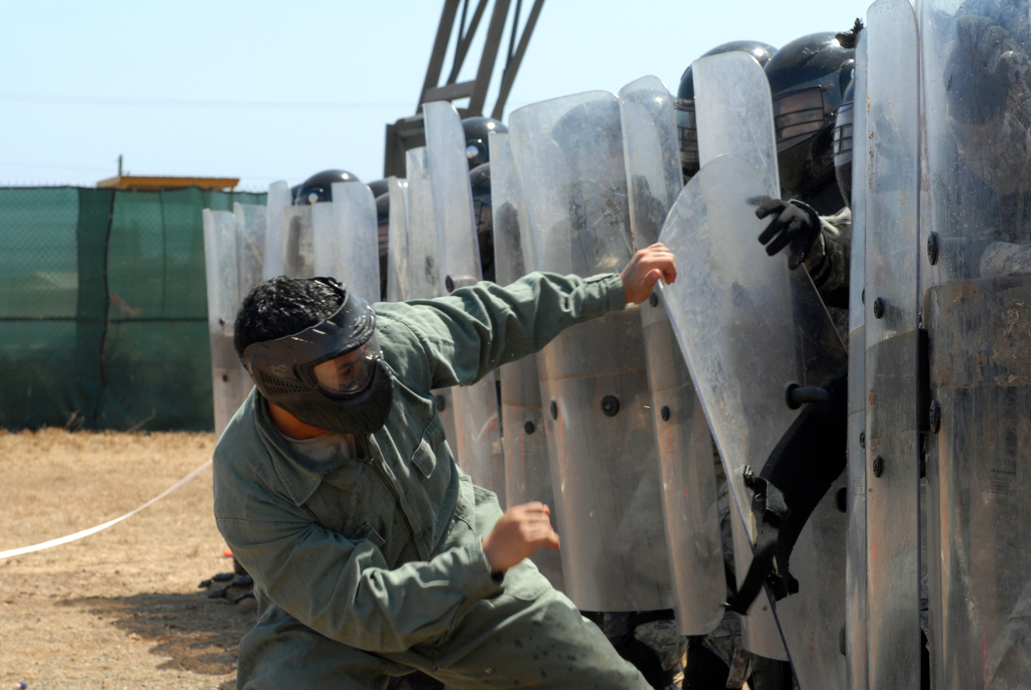 GUANTANAMO BAY, Cuba – Members of the Quick Reaction Force, deployed here with the Puerto Rico National Guard, conduct riot training as part of their annual requirements, April 9, 2009. The Puerto Rico National Guard is here on a yearlong deployment as a part of Joint Task Force Guantanamo’s headquarters element. (JTF Guantanamo photo by Army Pfc. Christopher Vann)